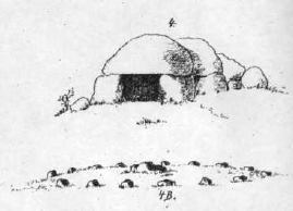 Megalithic tomb Silvitz